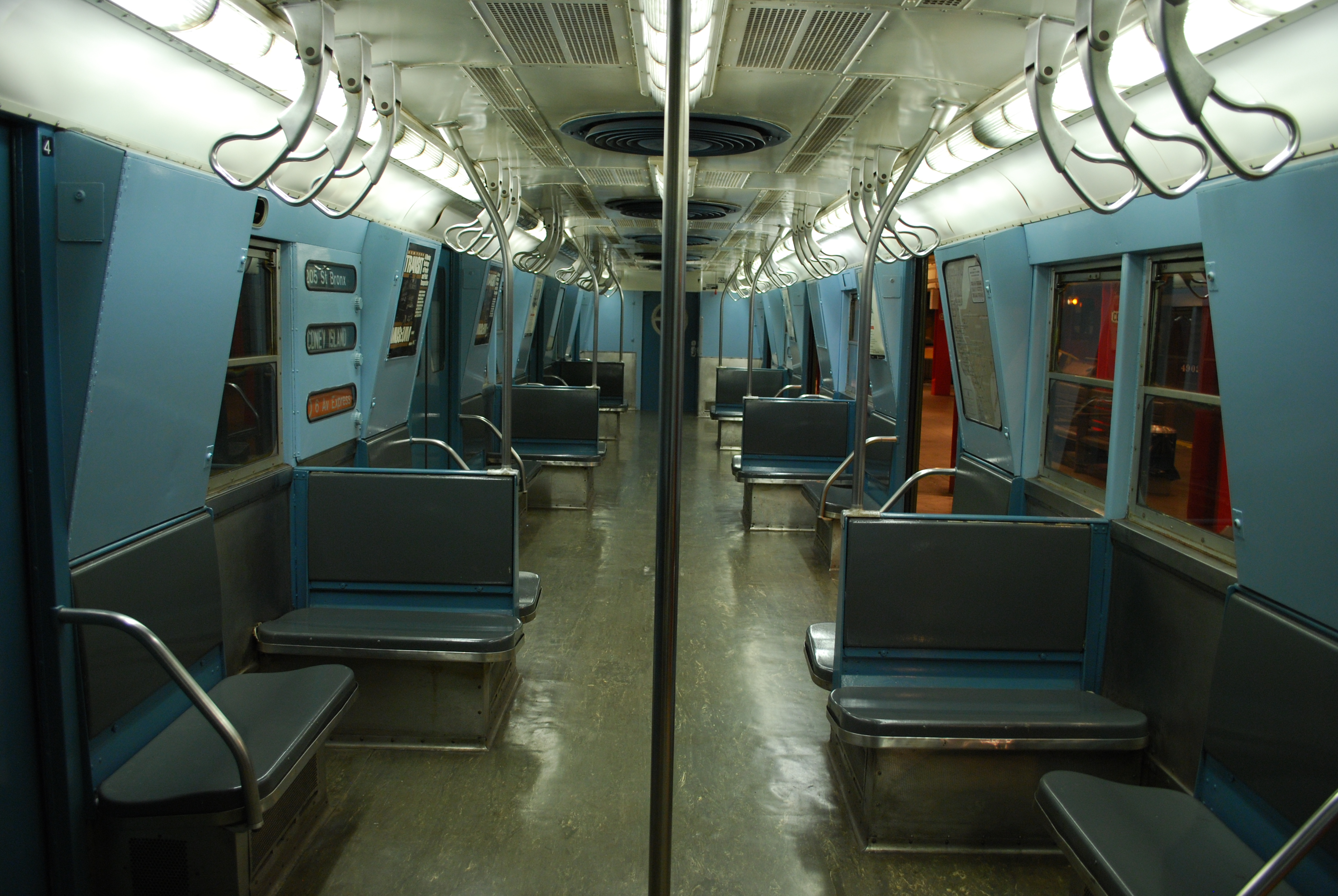 At the New York Transit Museum.